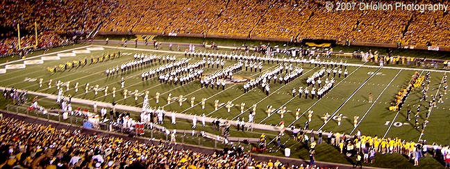 Marching Mizzou on Farout Field